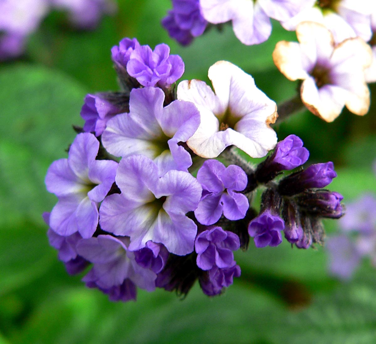 Photo of Heliotropium arborescens at the VanDusen Botanical Garden in Vancouver